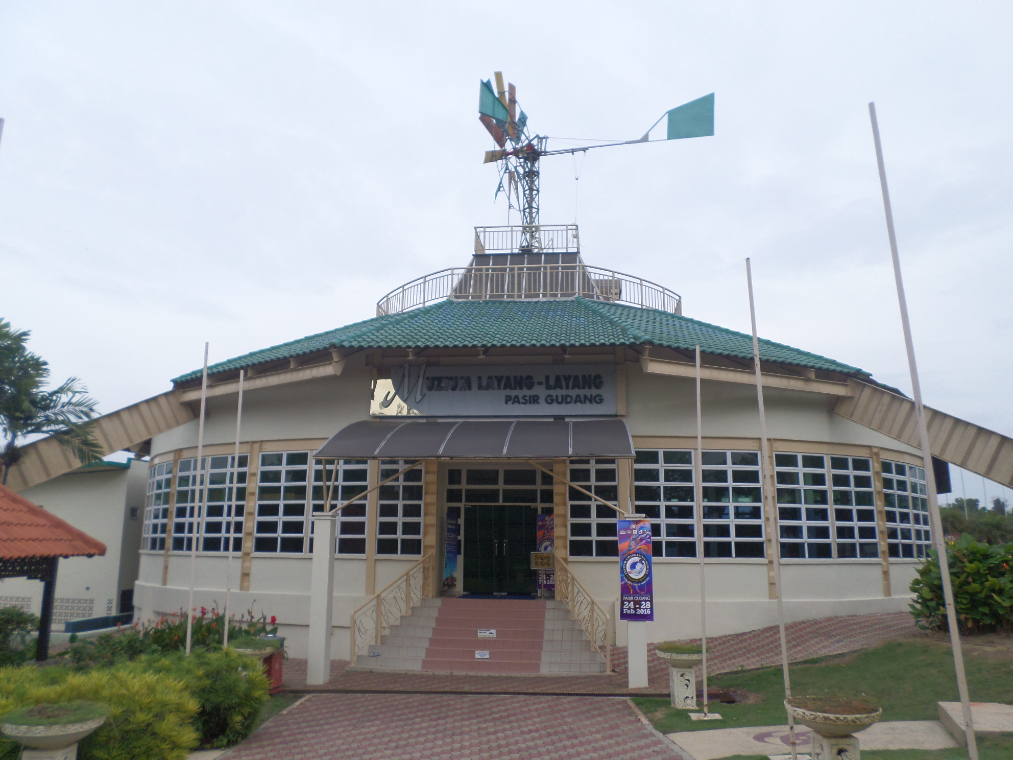 Kite Museum, Kite Hill, Pasir Gudang, Johor Bahru, Johor, Malaysia